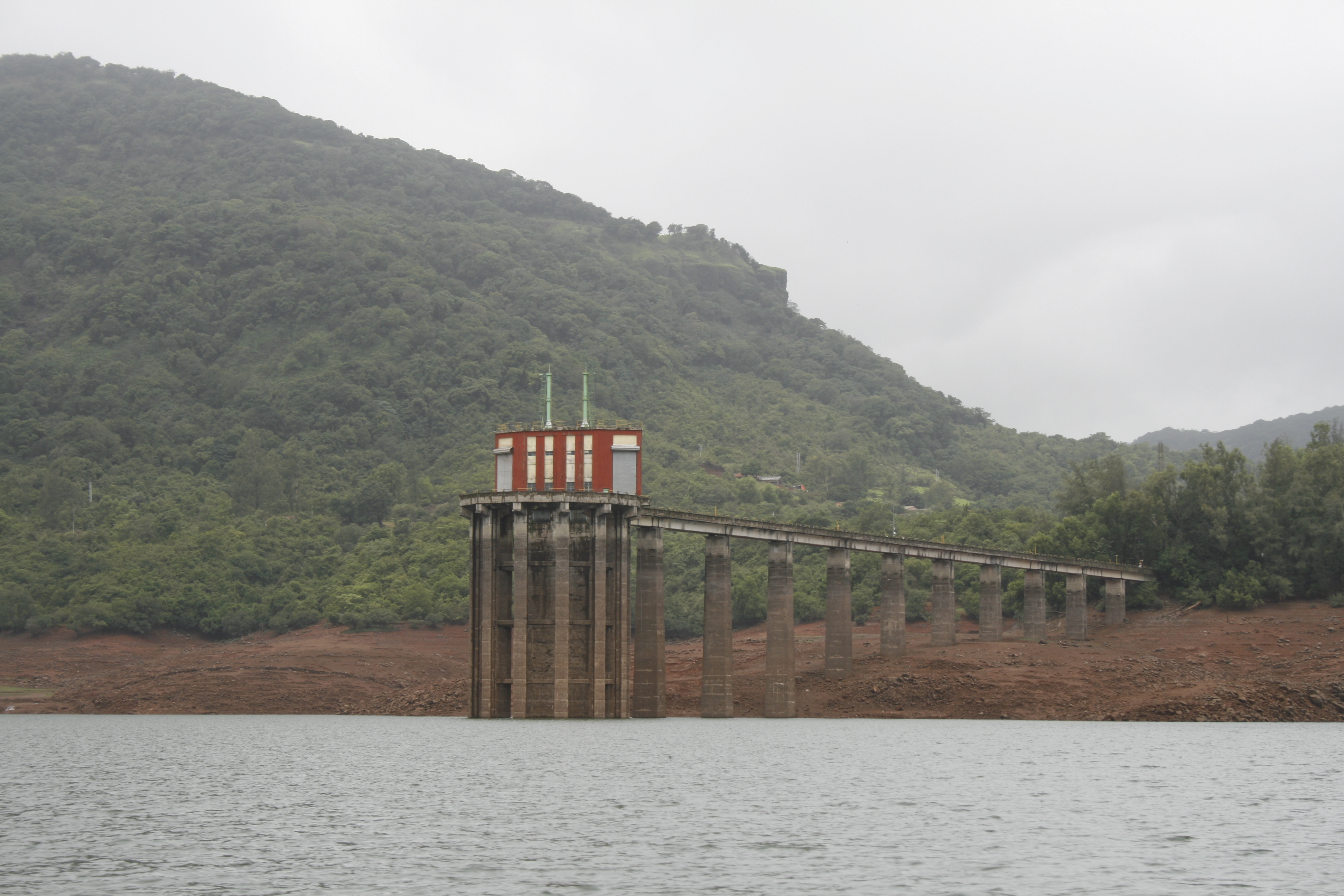 Navja intake structure